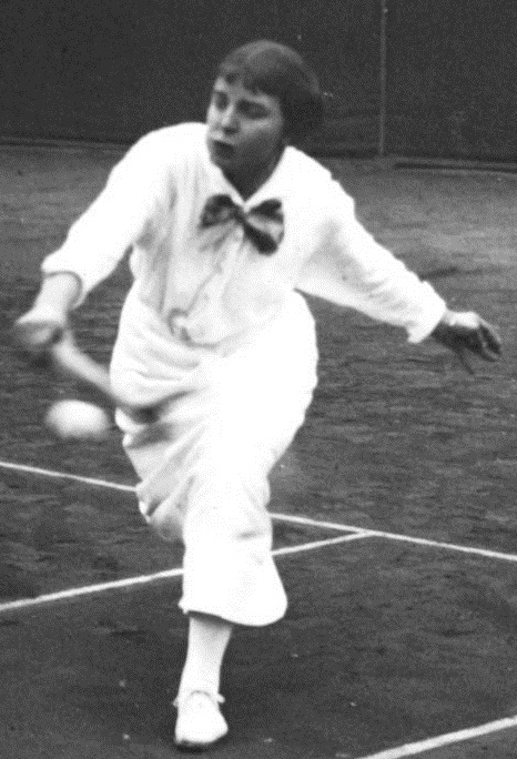 Sigrid Fick